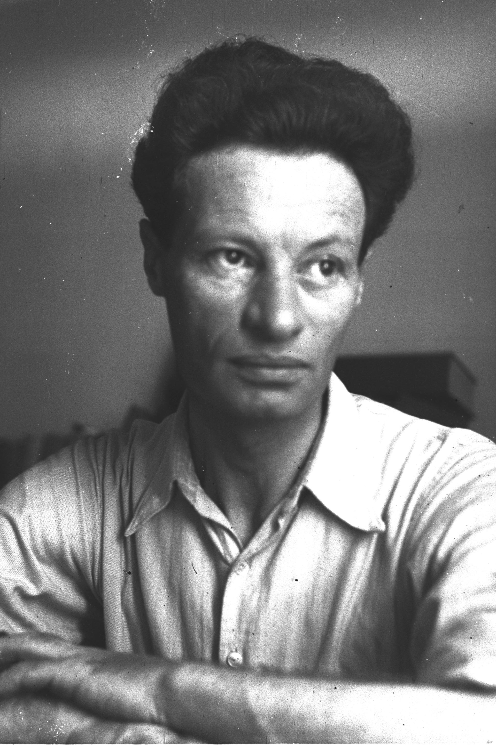 ITZHAK LAMDAN, POET AND WRITER. המשורר והסופר, יצחק למדן.